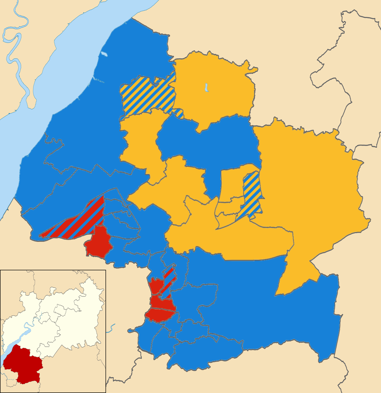 Results of the 2011 local elections in South Gloucestershire Conservative Labour Liberal Democrat